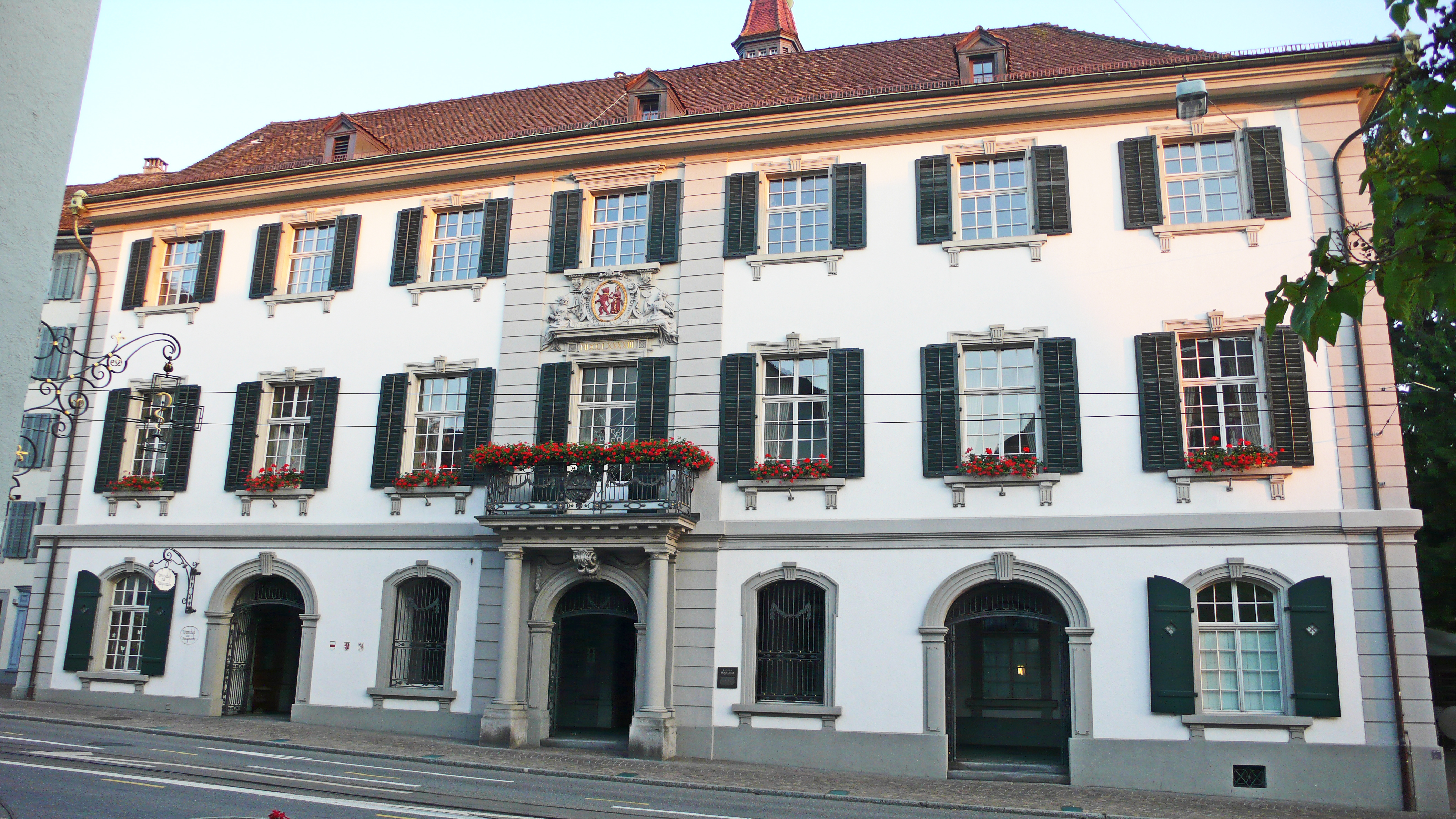 18th century facade of the town hall of Frauenfeld, Switzerland.